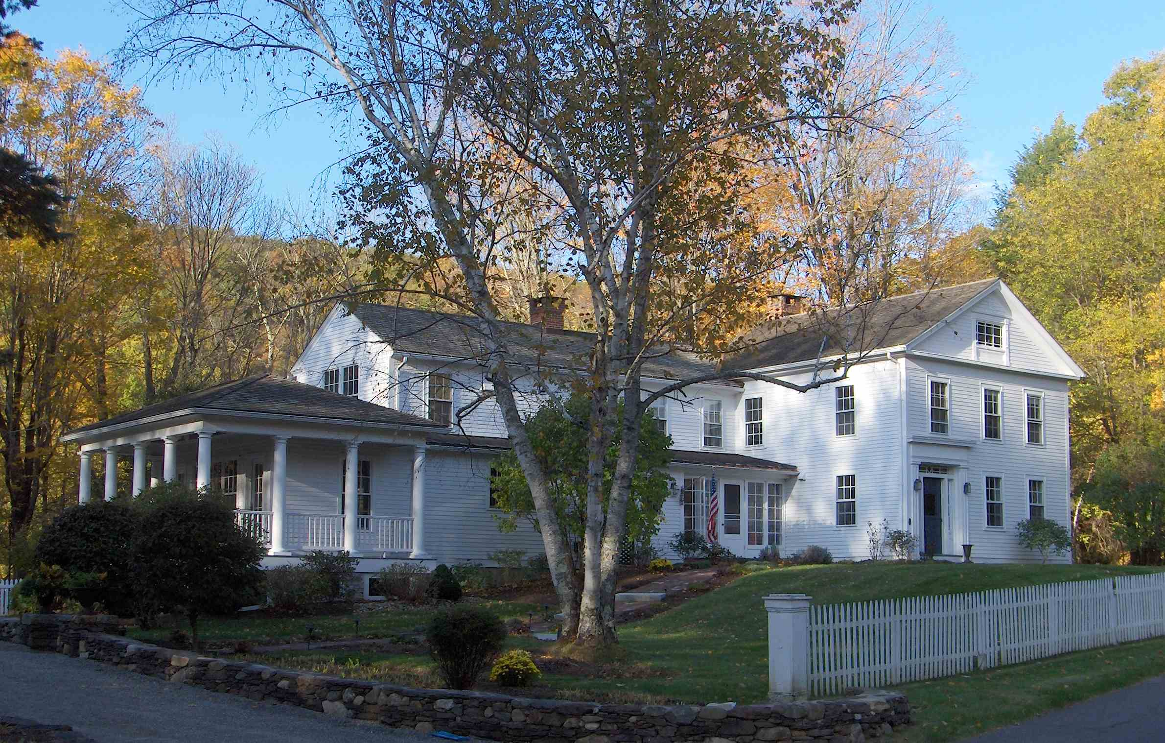 Pettibone/Cone House 15 Simsbury Road Granby CT USA, Greek Revival house built c.1820; Photograph 13 in the National Register of Historic places documentation for the West Granby Historic District